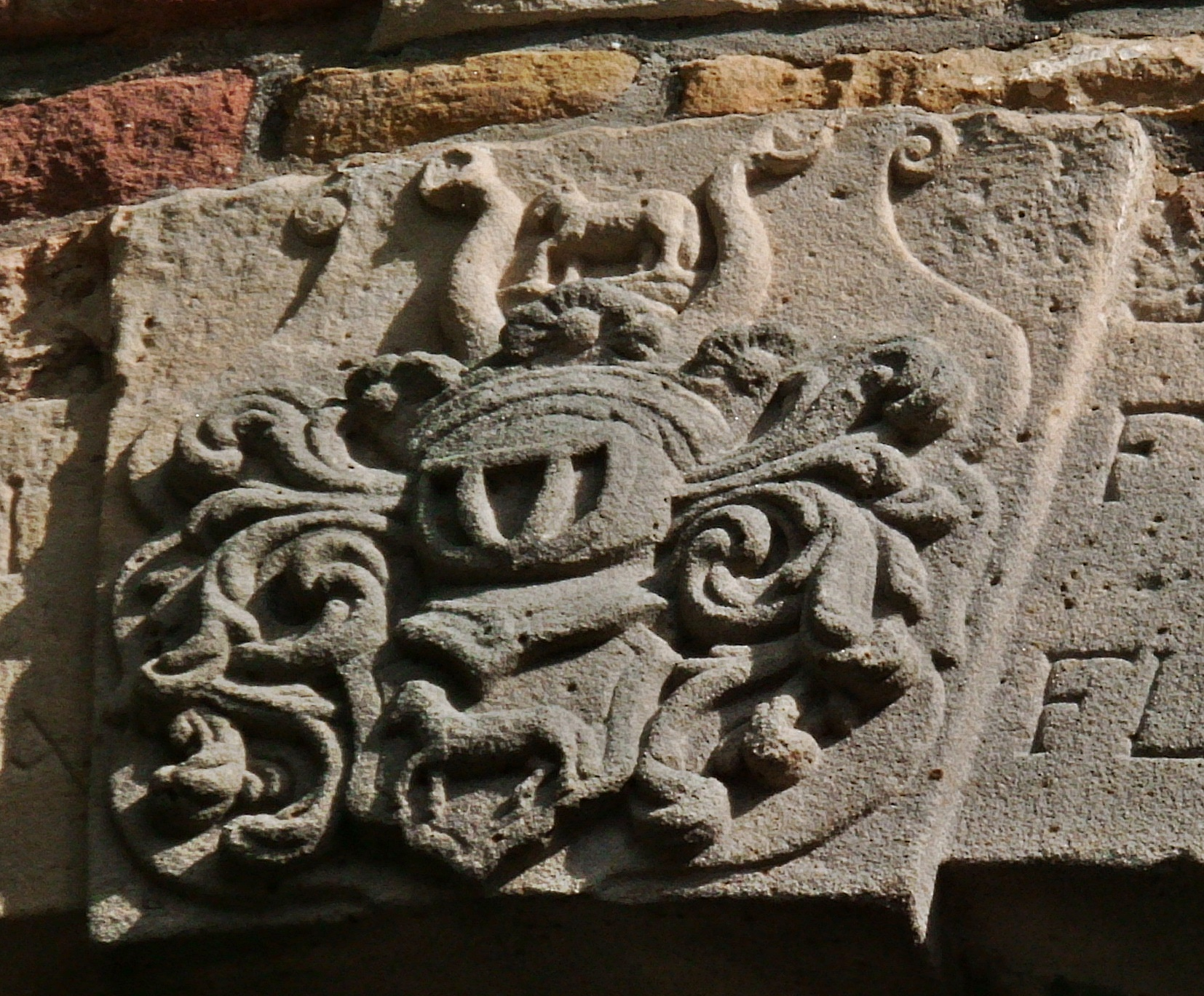 Gleisweiler, Hauptstr. 7, Familienwappen Fleischbein (1763)